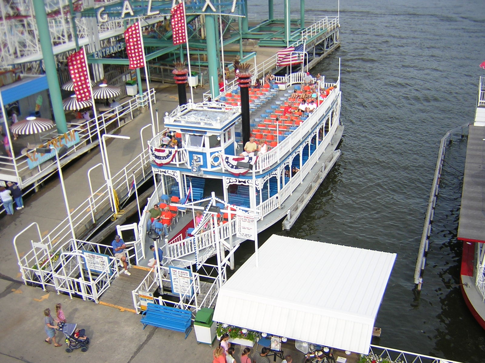 A scene from Indiana Beach, an amusement park located in Monticello, Indiana on Lake Shafer, a manmade lake on the Tippecanoe River. Shafer Queen ersatz sternwheeler.